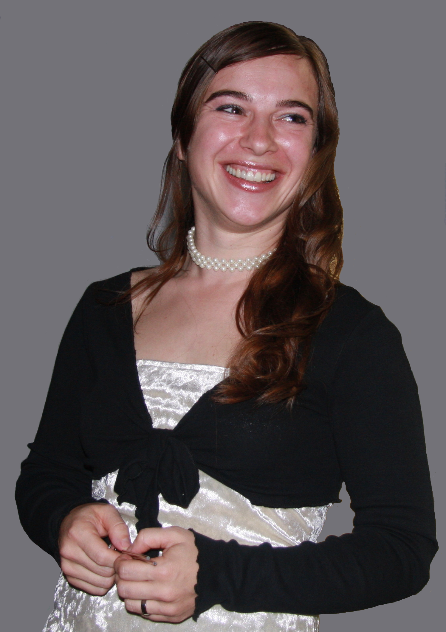 Jerica Bukovec